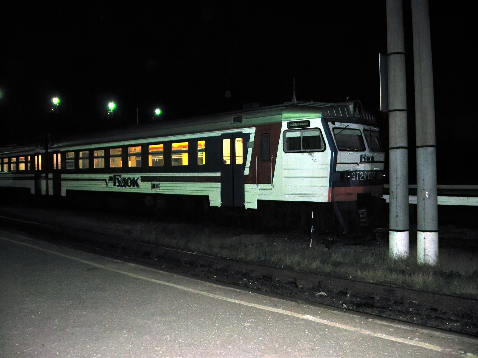 RZD class ET2L-027 EMU with "Gudok" logo in Veliky Novgorod